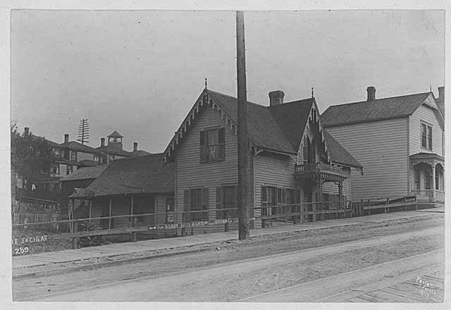 Caption on image: Peiser Seattle 9/13/00. 259 . Painted on fence in image: Nobby suits 8 and 10 dollars Gus Brown Co . [...] 5 cent cigar . Handwritten on verso: H.A. Atkins dwelling when moved to 5th and James, F.R.H . Peiser 259 Subjects (LCTGM): Atkins, Henry A.--Homes & haunts--Washington (State)--Seattle; Dwellings--Washington (State)--Seattle Henry A. Atkins was, among other things, the first mayor of Seattle and an early member of the University of Washington Board of Regents.